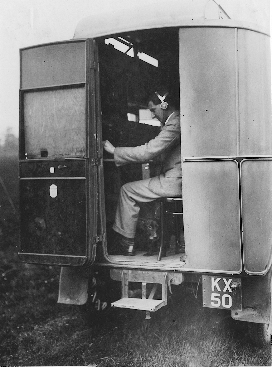 Jock Herd operates some of the radio receiver equipment in the Radio Research Section's Morris van. This van was later used in the Daventry Experiment which demonstrated that aircraft effected radio transmissions, and led to the creation of radar in the UK.